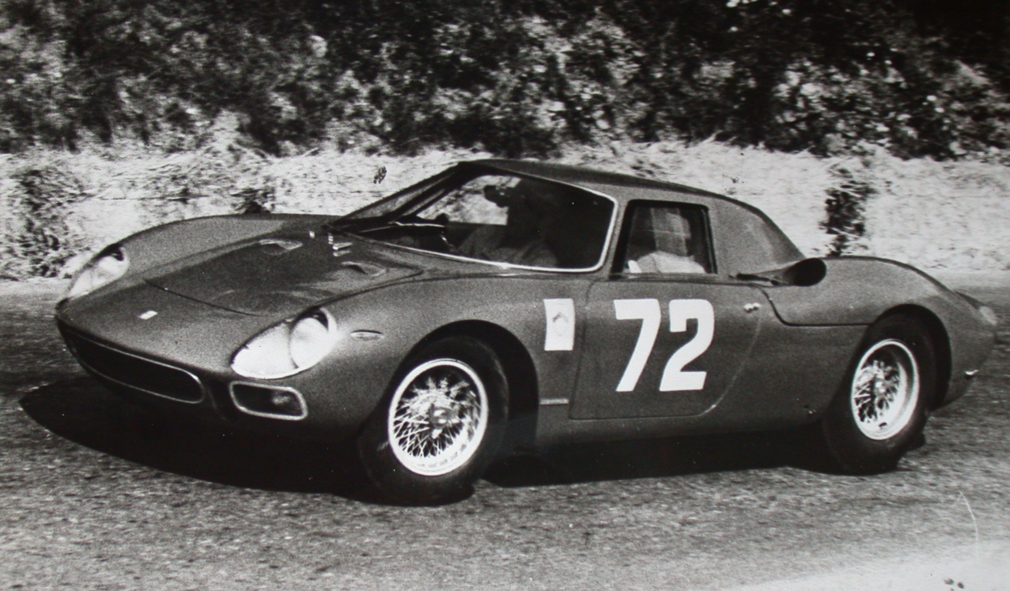 Lodovico Scarfiotti winner of hillclimb race Sierra Montana Crans on 30 AUgust 1964 at the wheel of a Scuderia Filipinetti's Ferrari, the 1964 Ferrari 250 LM s/n 5899 (one if its first, if not the first, race).[1]